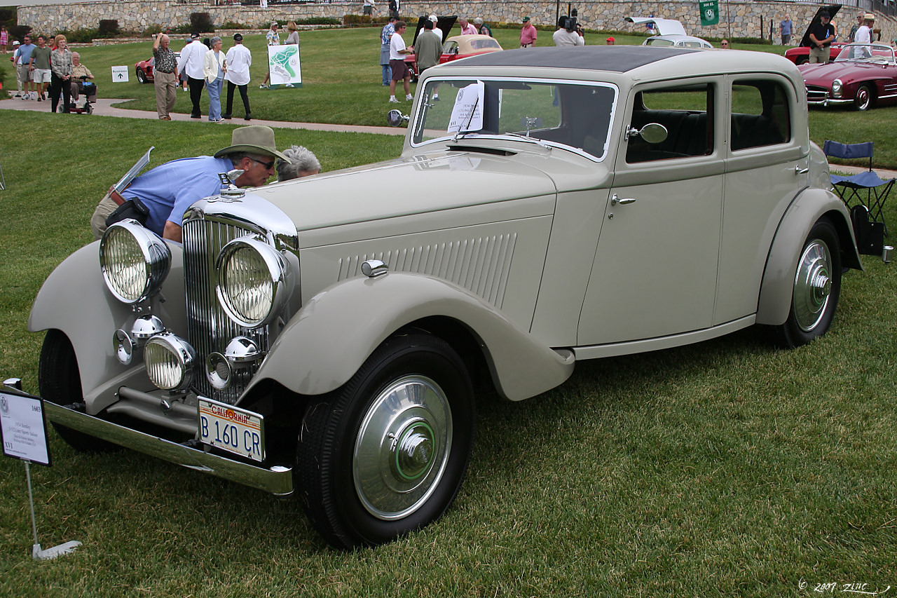 1934 Bentley 3.5 Litre Sports Saloon by Park Ward Newport Beach, CA, Concours d'Elegance, Strawberry Farms, Oct 9, 2007